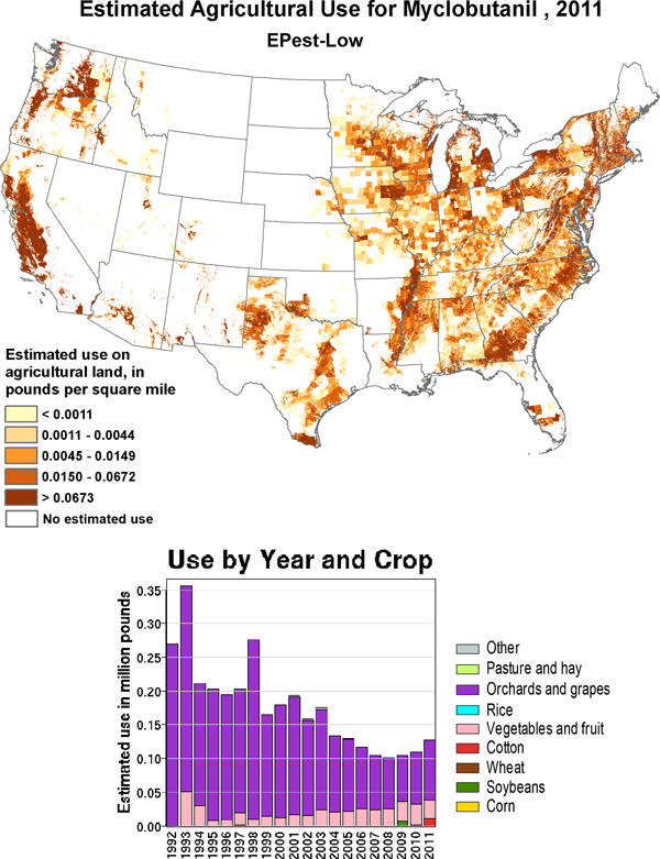 Myclobutanil map of use, USA, 2011 (estimated)